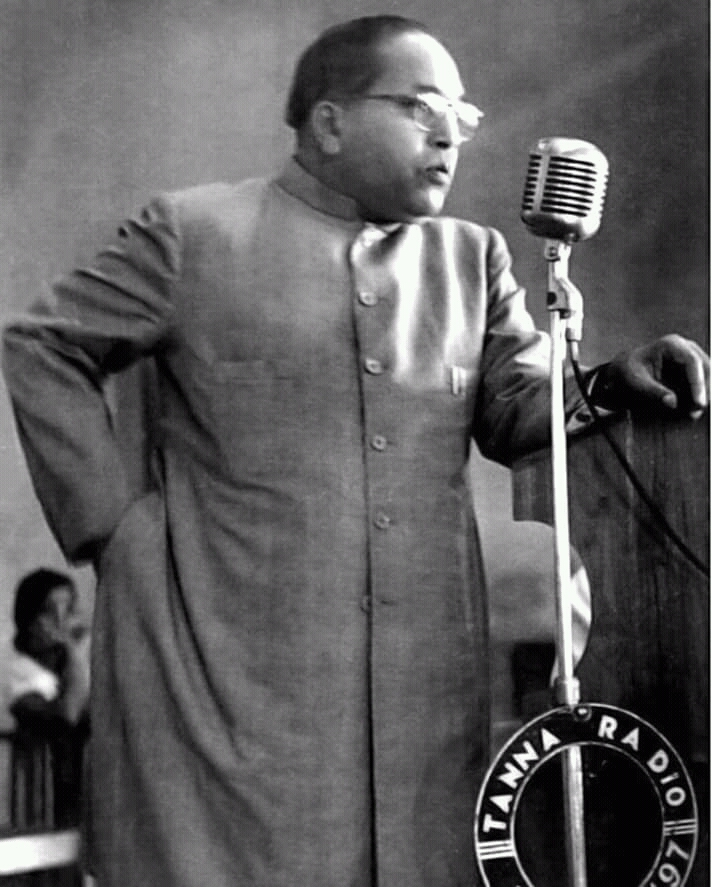 Dr. Babasaheb Ambedkar delivering a speech